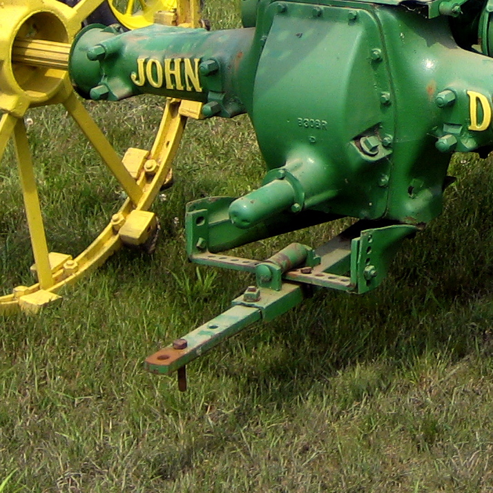 A swinging drawbar on an old John Deere GP tractor (a tractor without three-point hitch), PTO under protective cap